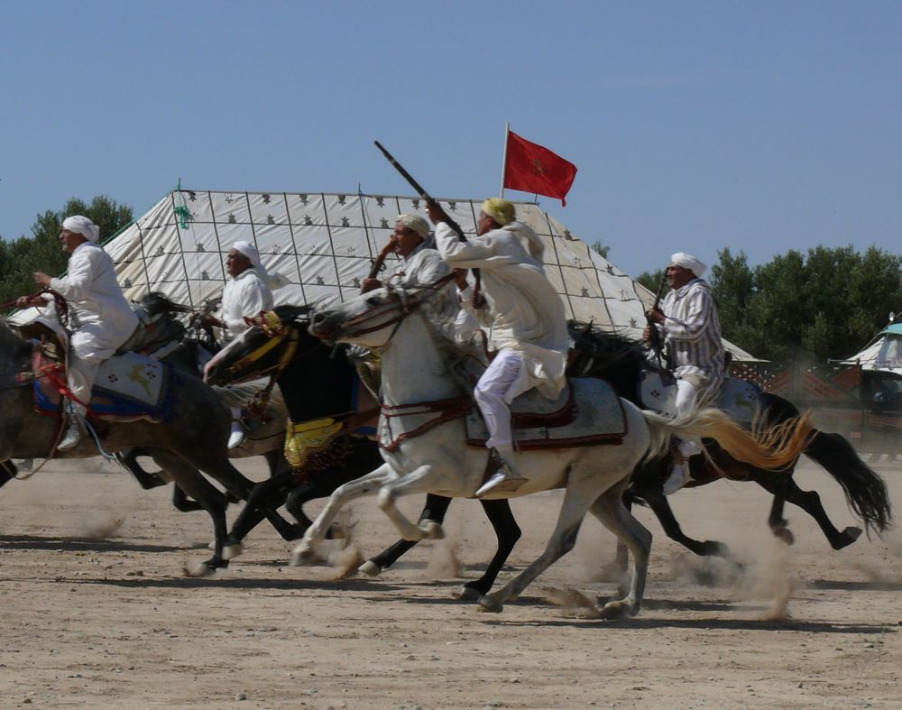 fantasiaguercif